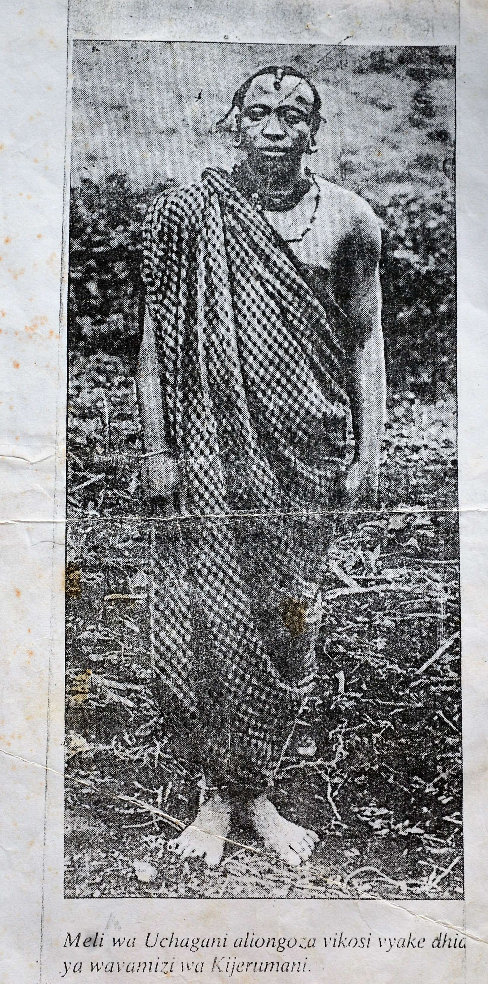 Chief Meli, tribal Chief of the Chagga in colonial german East-Africa in Old Moshi was leader of an uprising against the german Schutztruppe, received the penalty of hanging, his head was sent to the Virchow-Institute in Berlin